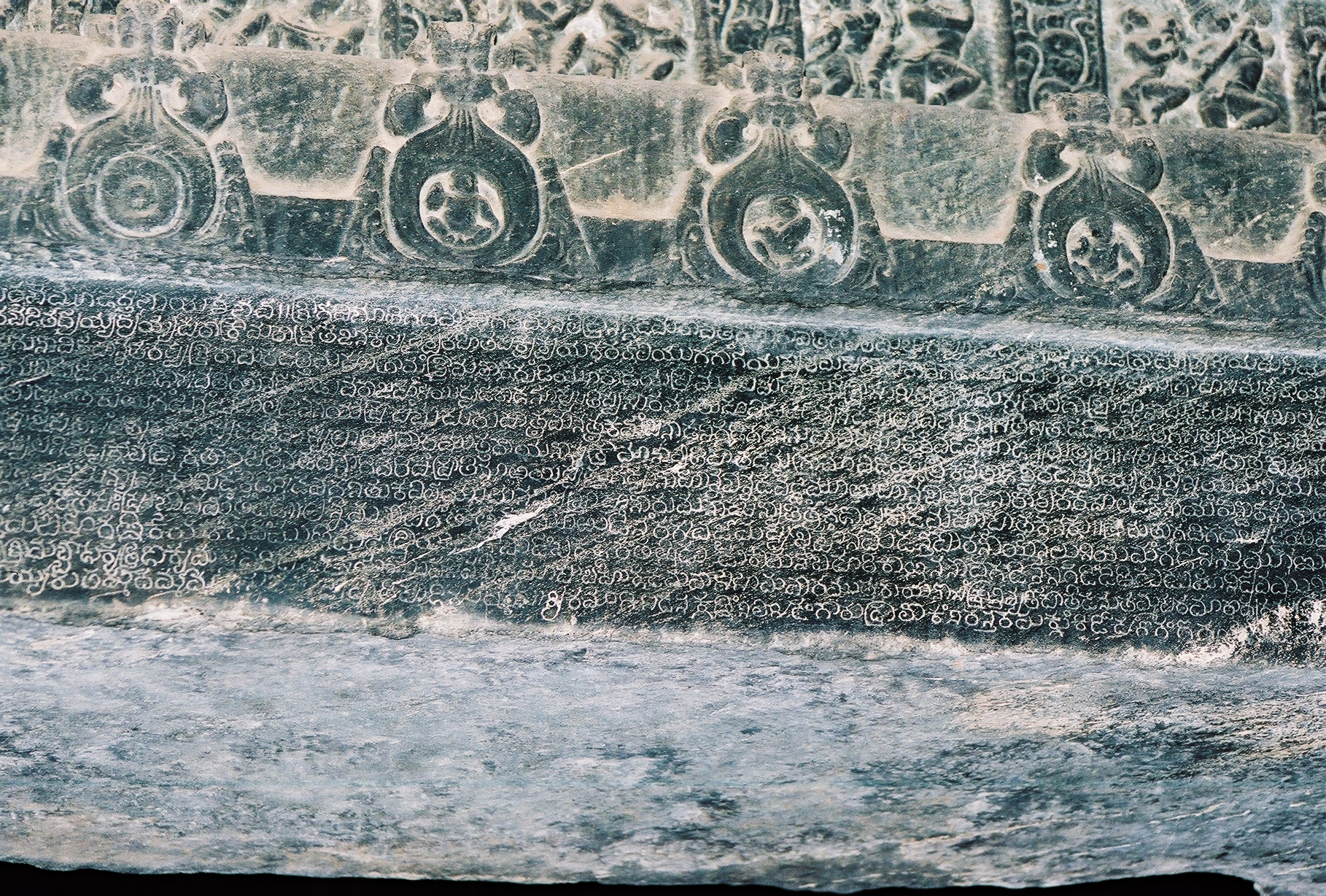 This photograph was taken by me in the Kasi Visveshvara temple (also spelt Kasi Visvesvara or Kashi Vishveshwara) at Lakkundi in the Gadag district of Karnataka state, India. The inscription is ascribed to Western Chalukya King Vikramaditya VI. Source:The Chalukyan Architecture of Kanarese Districts by Henry Cousens, pp.79-82, 1926, 1996, Archaeological Survey of India, New Delhi,oclc = 37526233; Source: Handbook of the Bombay Presidency: With an Account of Bombay City, John Murray, London, 1881, Chapter = Sect II, Route 12-Lakkundi, pp.246-247